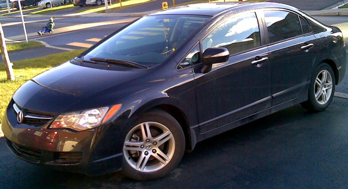 2006 Acura CSX photographed in Montreal, Quebec, Canada.